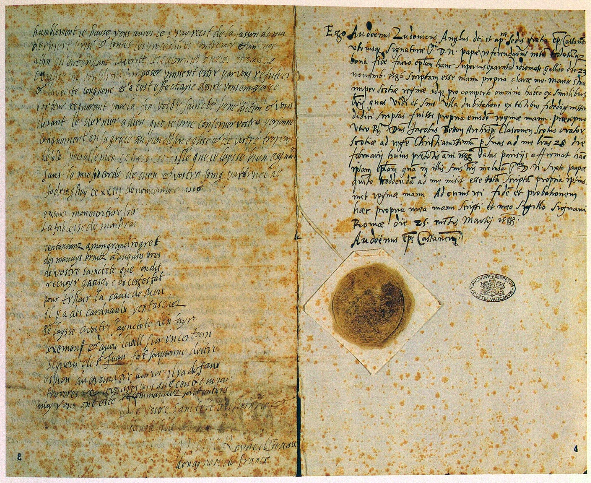 The final part of an autograph letter of Queen Mary to Pope Sixtus V. Vatican City, Archivio Segreto Vaticano, Archivum Arcis, Arm. I–XVIII, 4082, fol. 3v–4r.